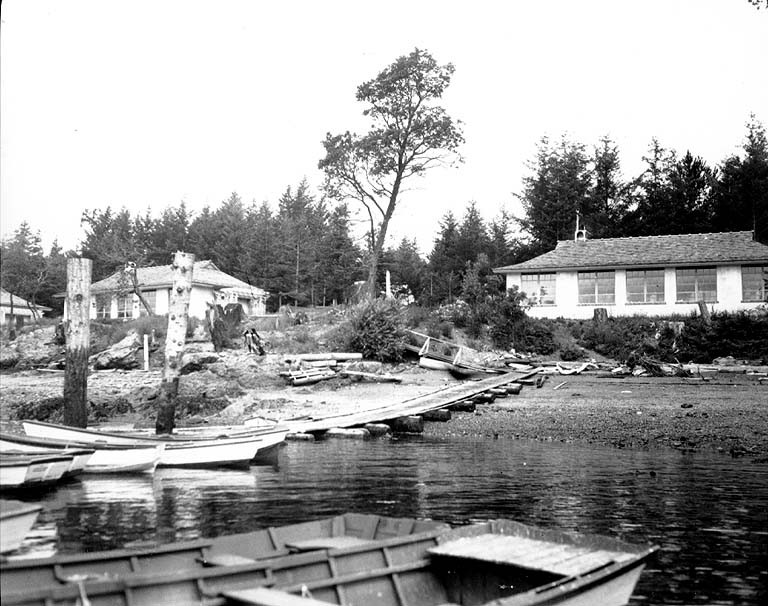 From John Cobb field notebook: Friday Harbor Biological Station, float and laboratories Subjects (LCTGM): Boats--Washington (State)--Friday Harbor Subjects (LCSH): Friday Harbor Laboratories (Wash.); Laboratories--Washington (State)--Friday Harbor; Fisheries--Research--Washington (State)--Friday Harbor